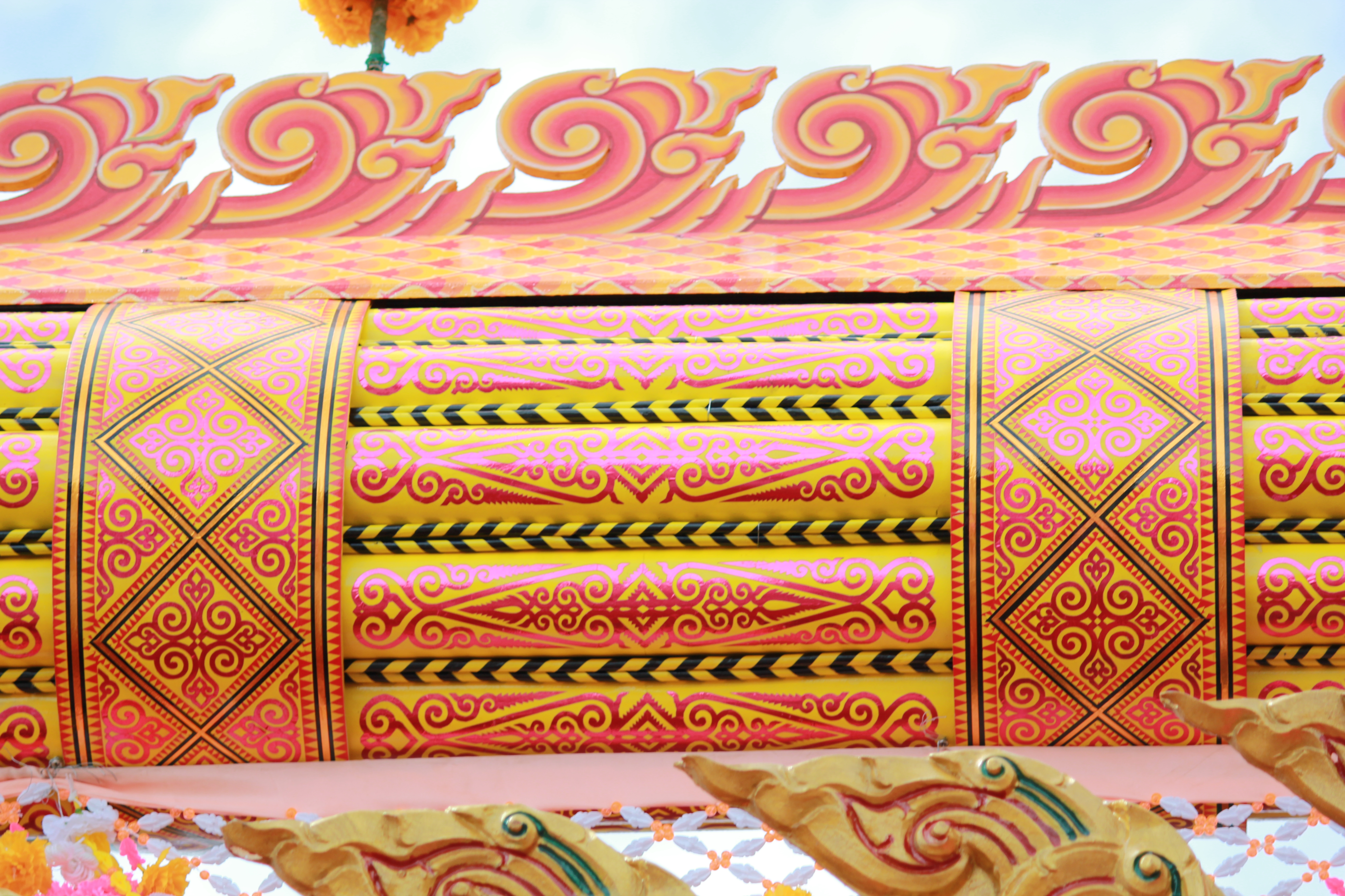 บั้งไฟลายศรีภูมิ